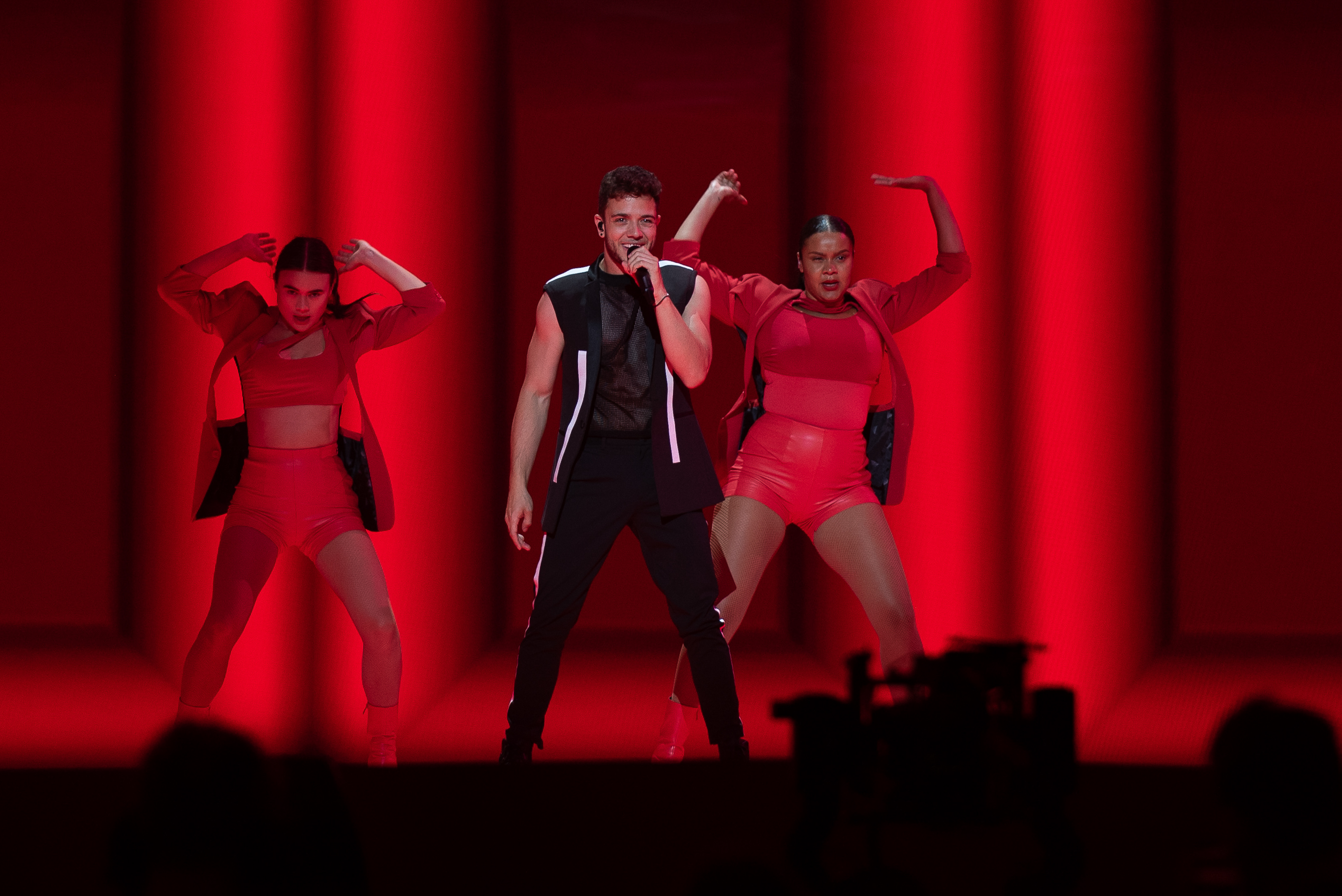 Luca Hänni representing Switzerland with the song "She Got Me" during a rehearsal before the grand final of the Eurovision Song Contest 2019 in Tel-Aviv.